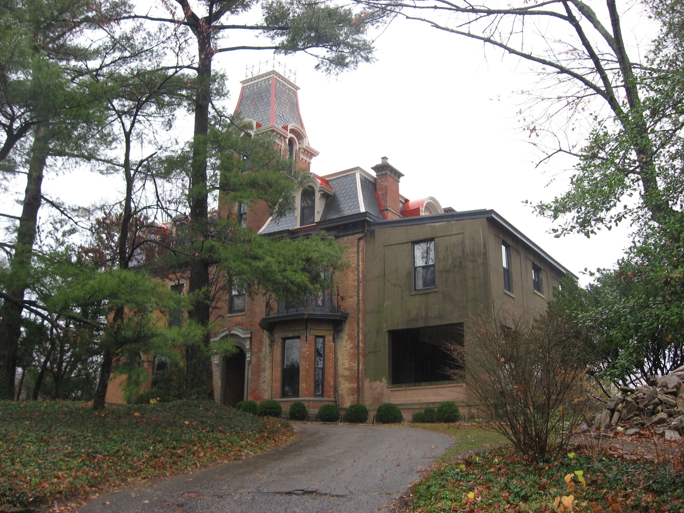 Front of the Hewson-Gutting House, located at 515 Lafayette Avenue in the Clifton neighborhood of Cincinnati, Ohio, United States. Built in 1862, it is listed on the National Register of Historic Places.